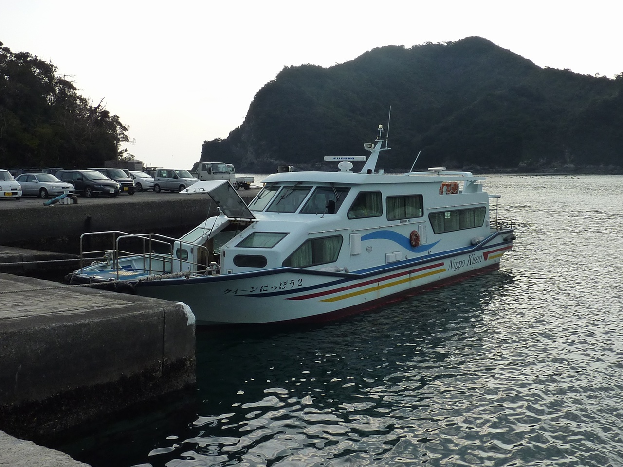 Queen Nippo 2 (Nobeoka City, Miyazaki Prefecture, Japan)